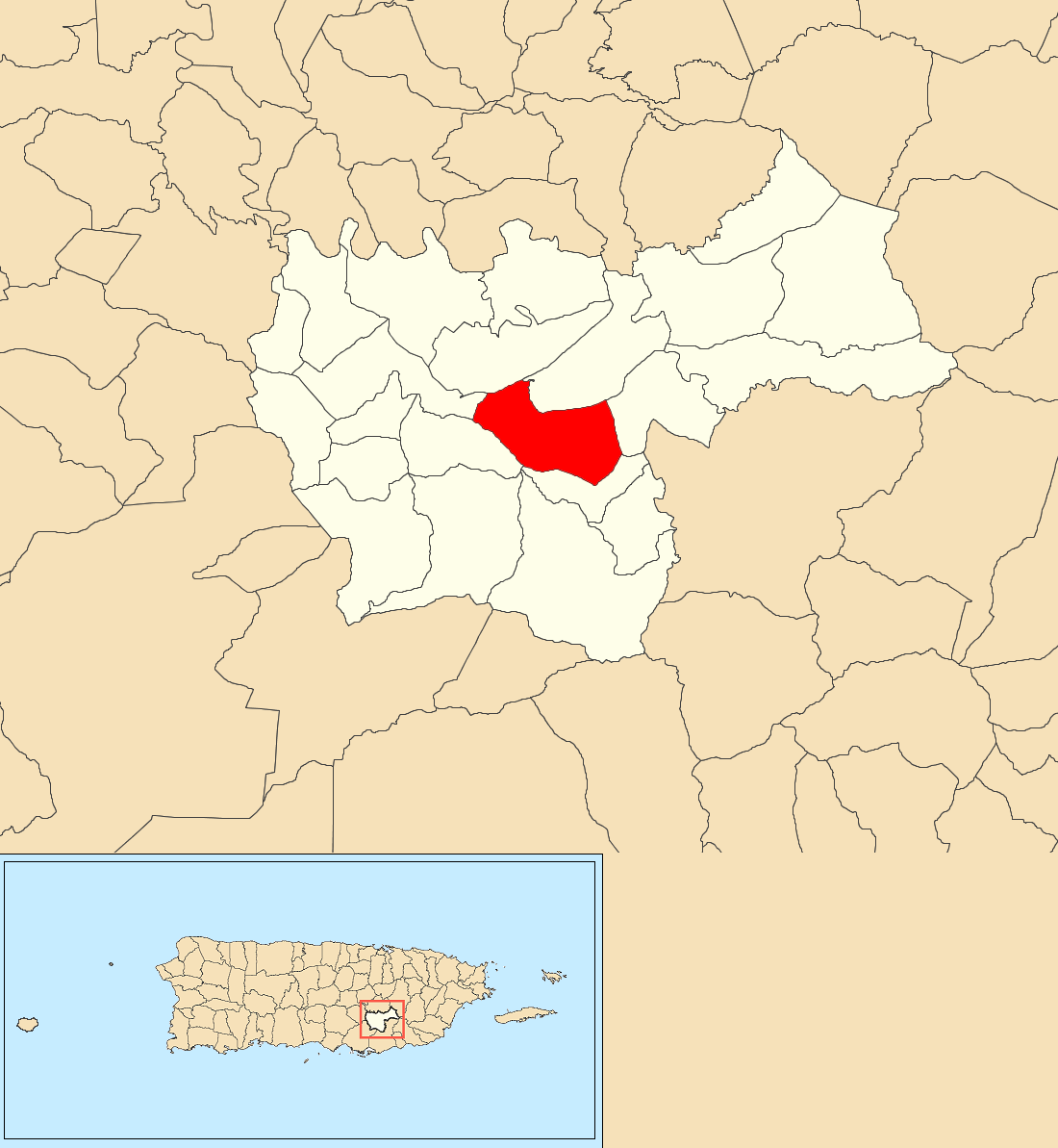 Quebrada Arriba, Cayey, Puerto Rico locator map